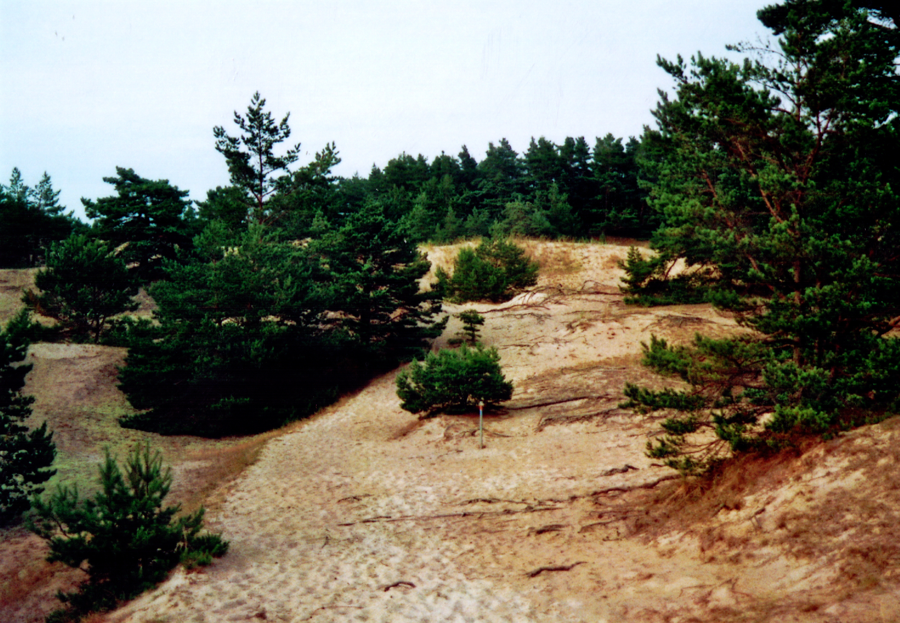 Protected Area Ullahau, Fårö, Gotland, Sweden